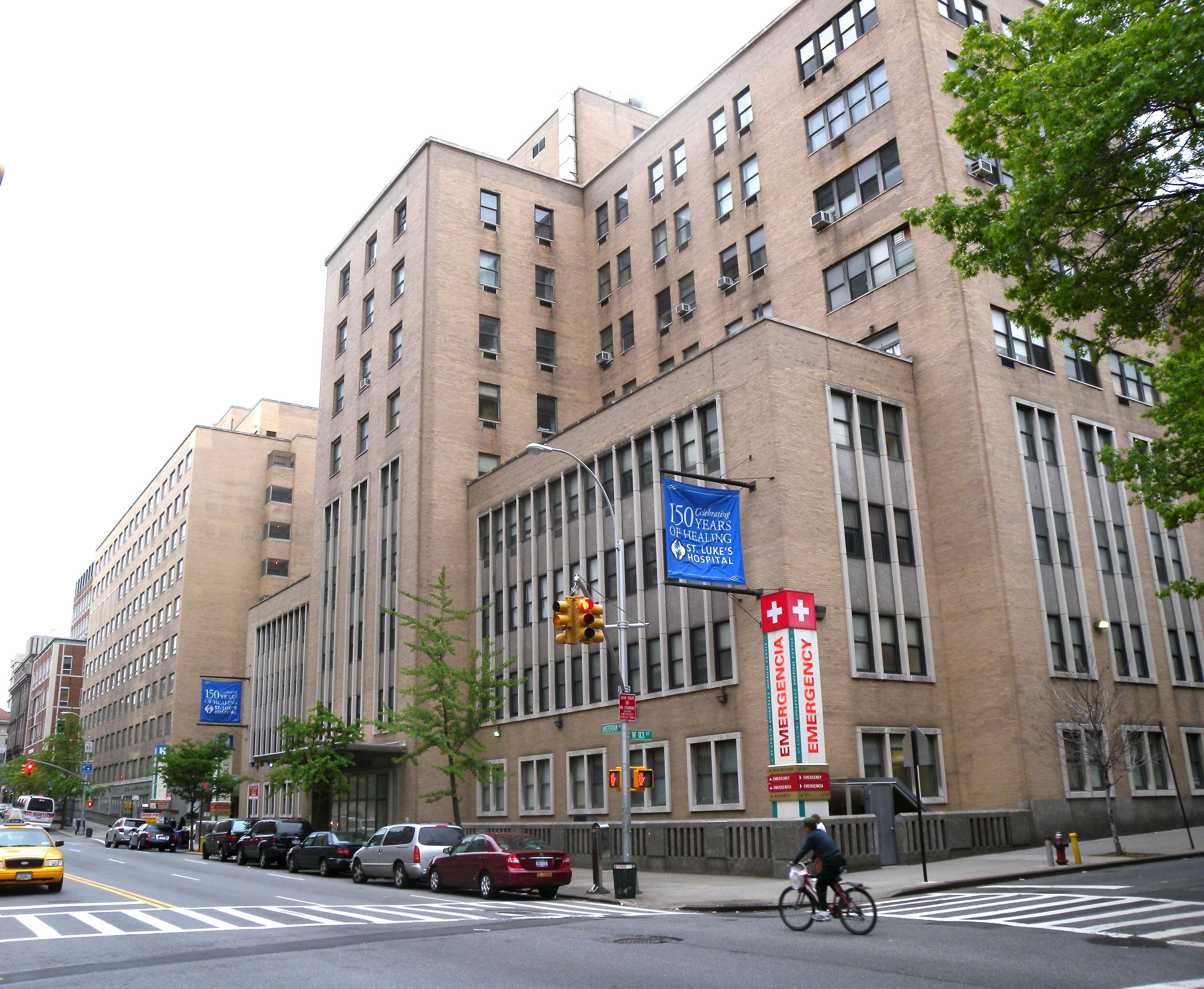 Looking northeast across Amsterdam Avenue and 113th Street at St. Luke's-Roosevelt Hospital Center on a cloudy late afternoon.